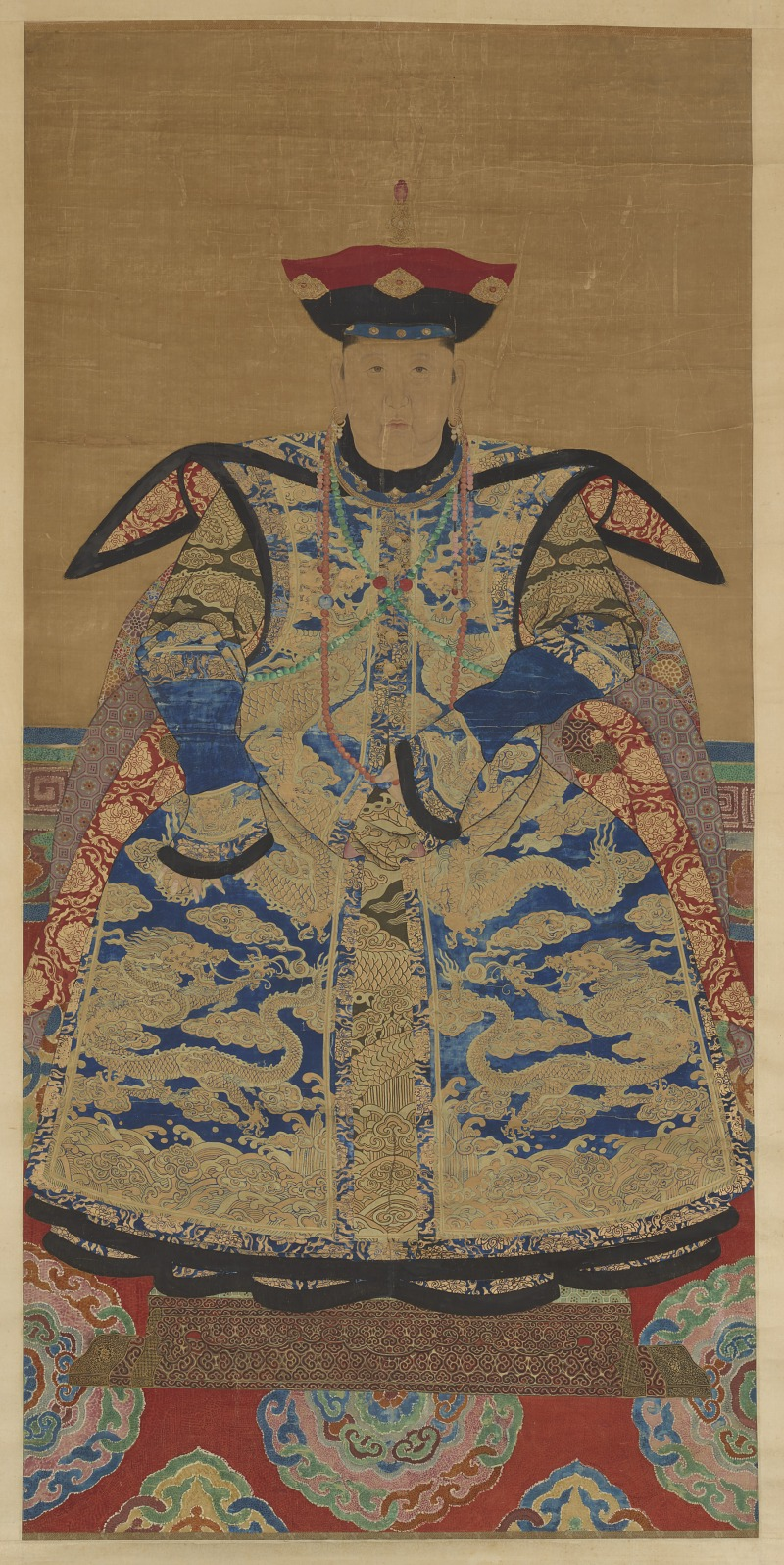 Portrait of a Qing Court Lady possibly the Wife of Dorgun. China; 18th-19th century; Ink and colors on silk; H x W (painting): 200.9 x 98.5 cm (79 1/8 x 38 3/4 in); Purchase --Smithsonian Collections Acquisition Program, and partial gift of Richard G. Pritzlaff